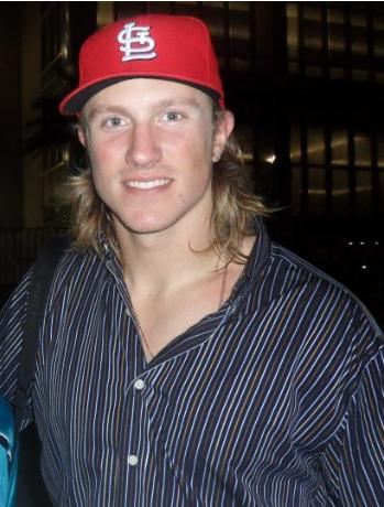 Taken after Monday Night Football on 12/5, Jacksonville Florida, at Everbank Field